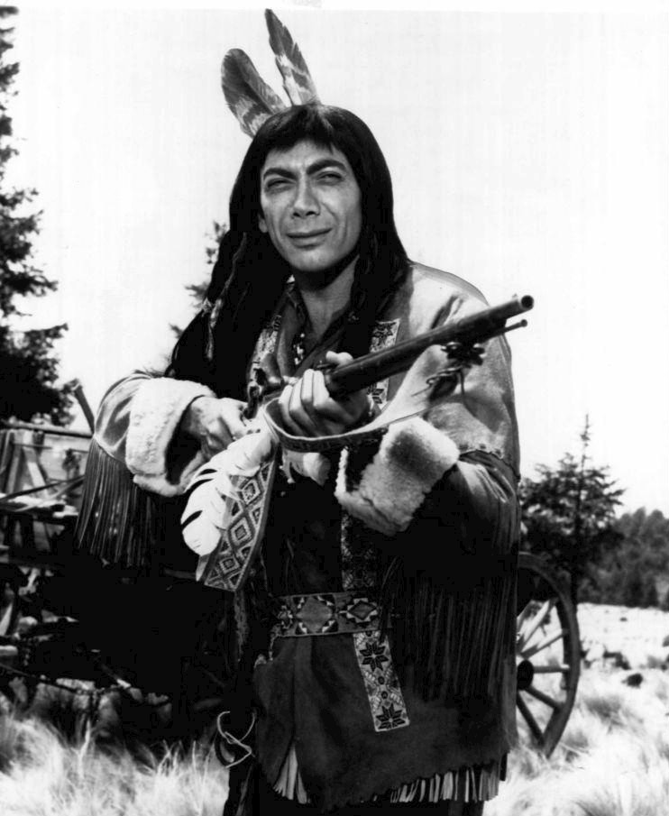 Photo of Ed Ames as Mingo from the television program Daniel Boone.